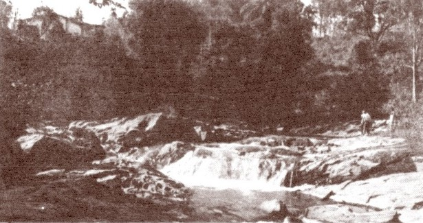 location where Brazilian medium Francisco Cândido Xavier first saw the spirit 'Emmanuel'.